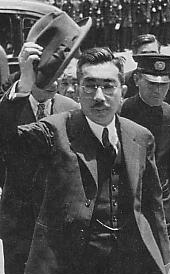 Emperor Showa's visit to Kobe in 1947